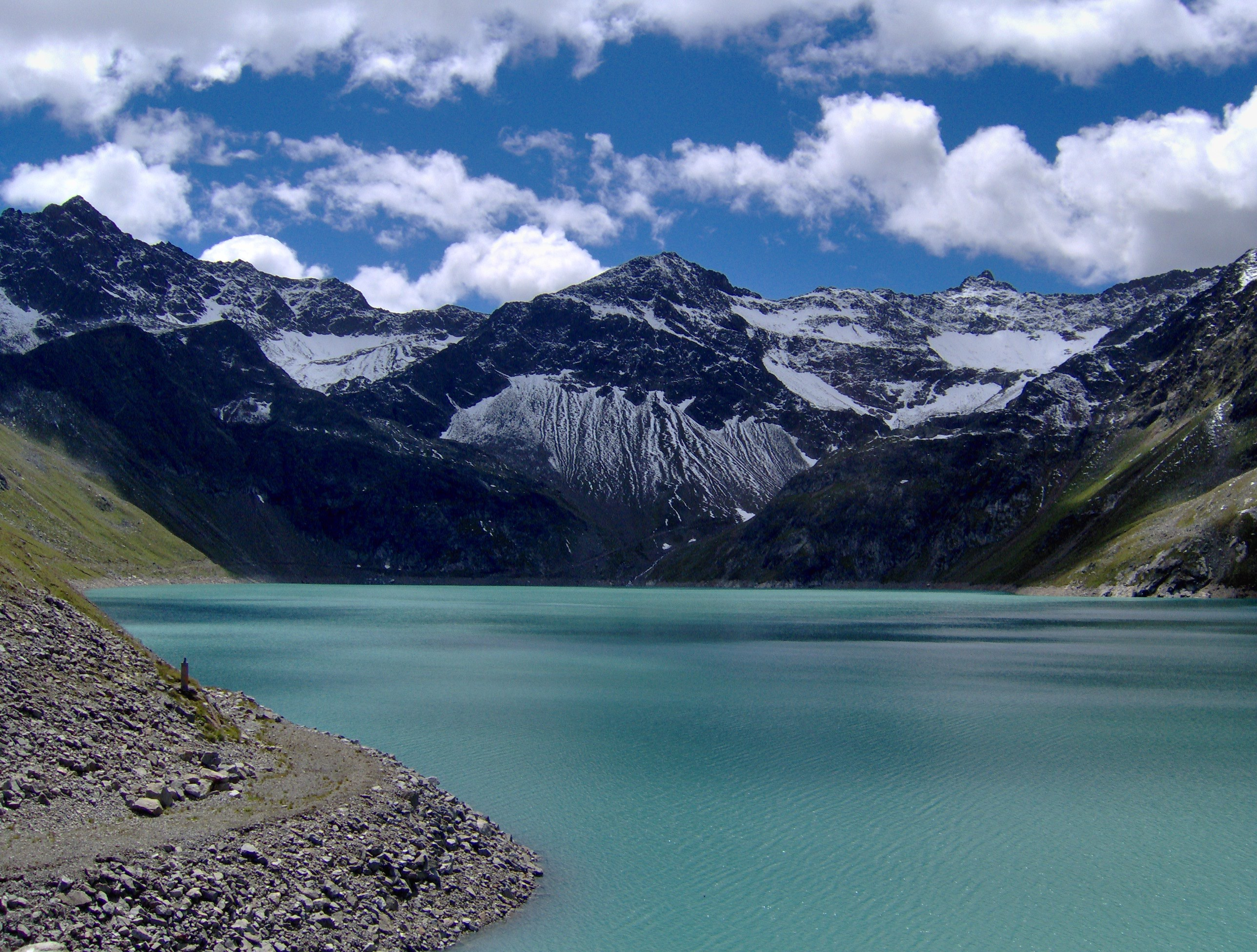 The reservoir Speicher Finstertal near Kühtai in Tyrol, Austria, with in the background the mountain top Finstertaler Schartenkopf